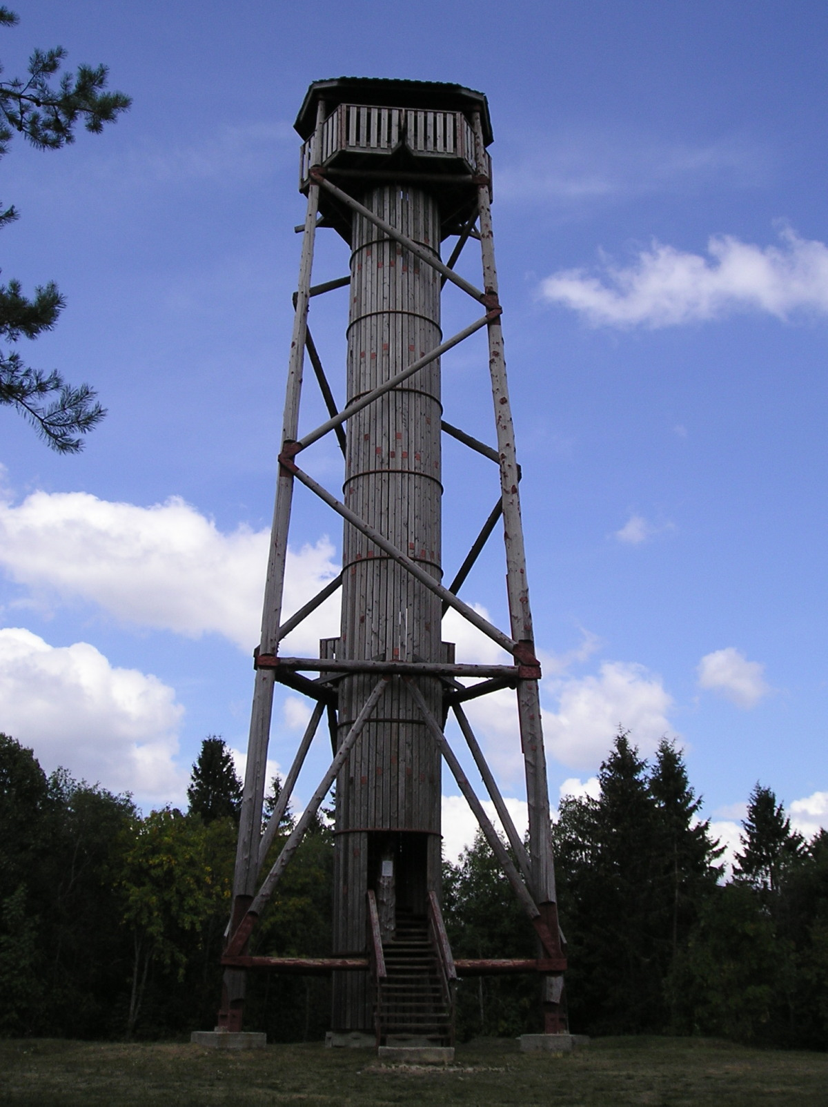 View tower on the hill of Emumägi, Estonia